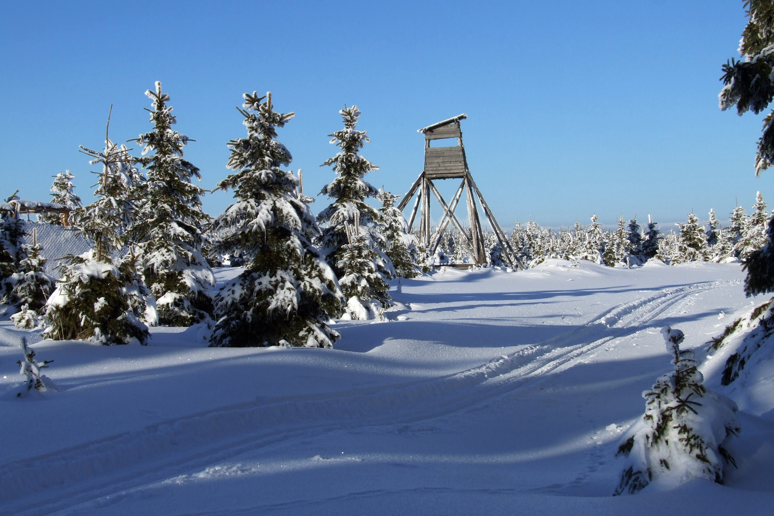 Ore Mountains: Summit of the mountain Loučná